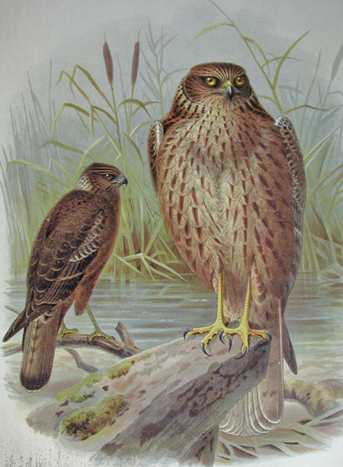 Circus approximans, Swamp Harrier, adult in front, young at rear.